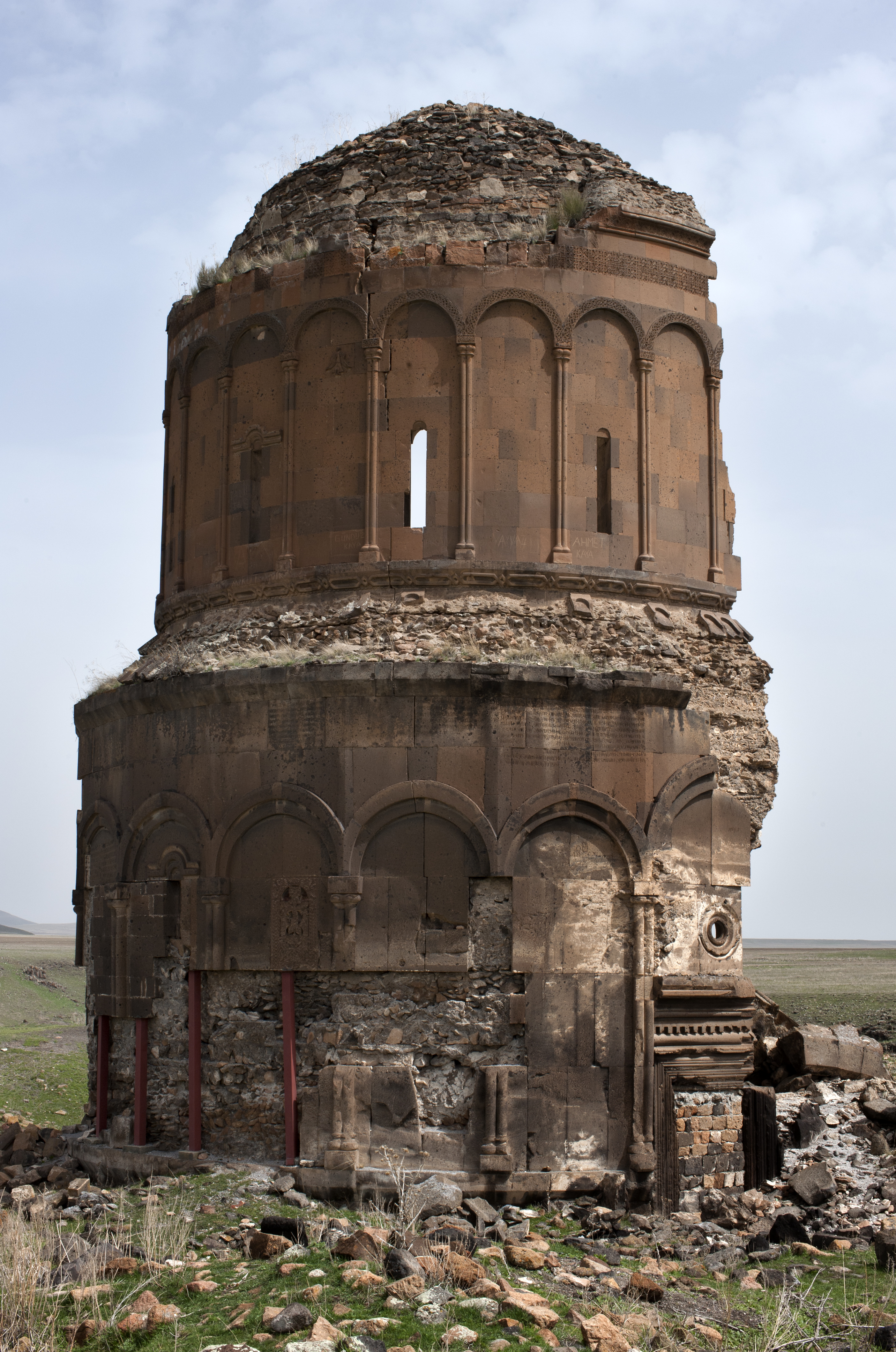 Church of Redeemer, Ani, Turkey.